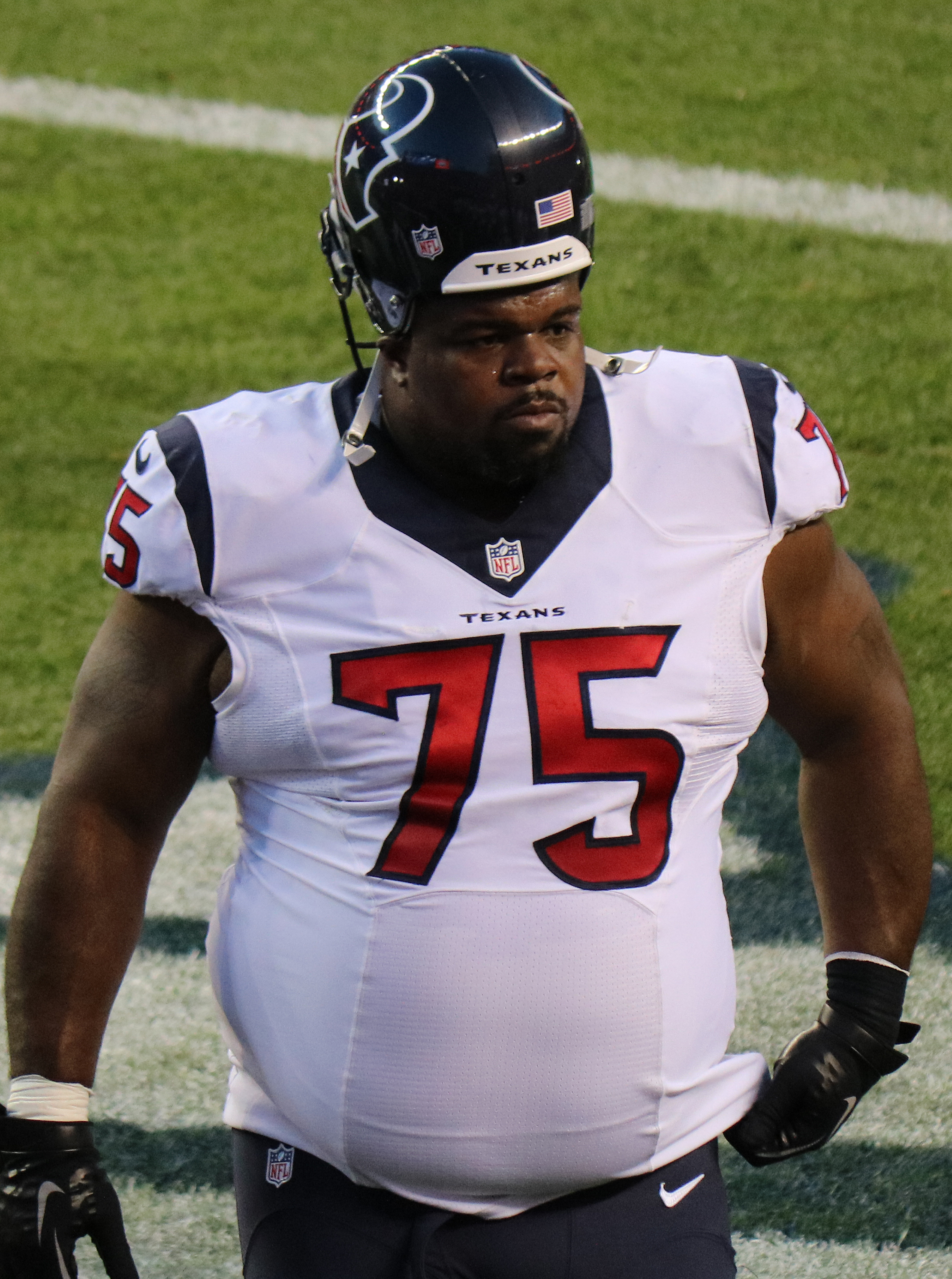 Vince Wilfork, a player on the National Football League.